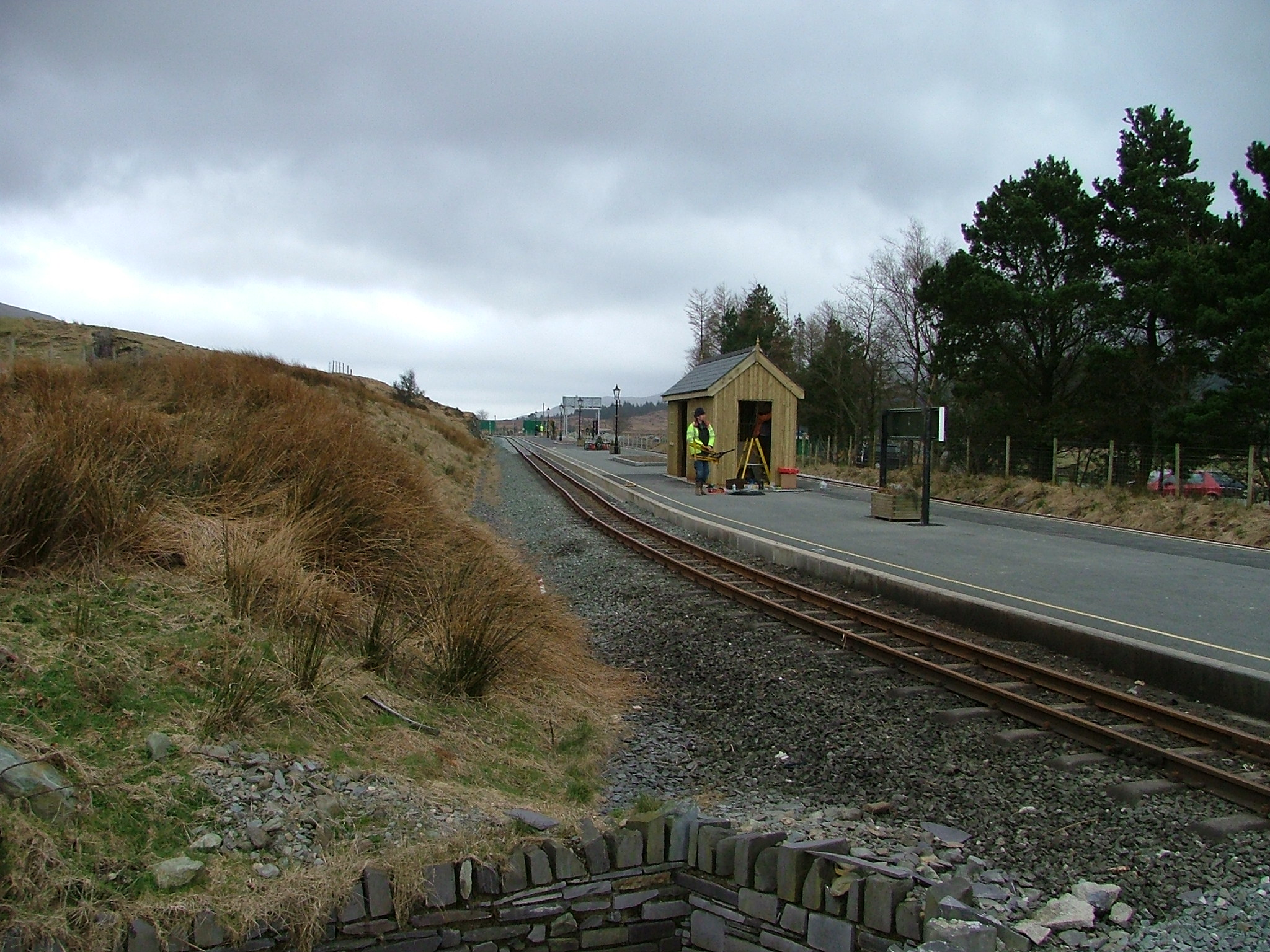 Photographer: Stewart D. Macfarlane Date: 7 April 2006 Title: Rhyd Ddu railway station (looking south) the evening before re-opening after major rebuilding in 2006.